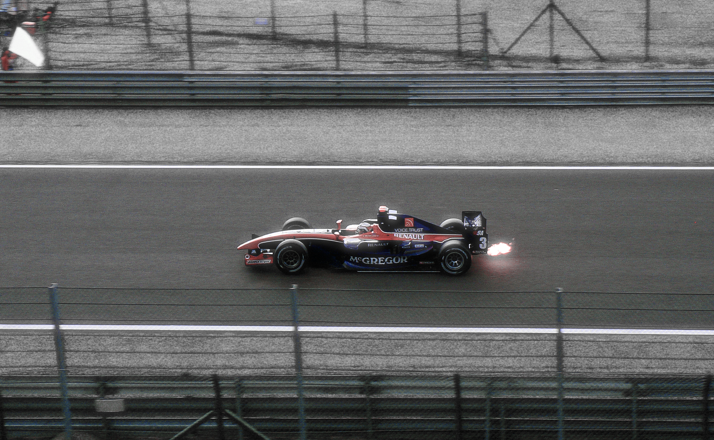 Giedo van der Garde driving for iSport International at the Spa-Francorchamps round of the 2009 GP2 Series season.